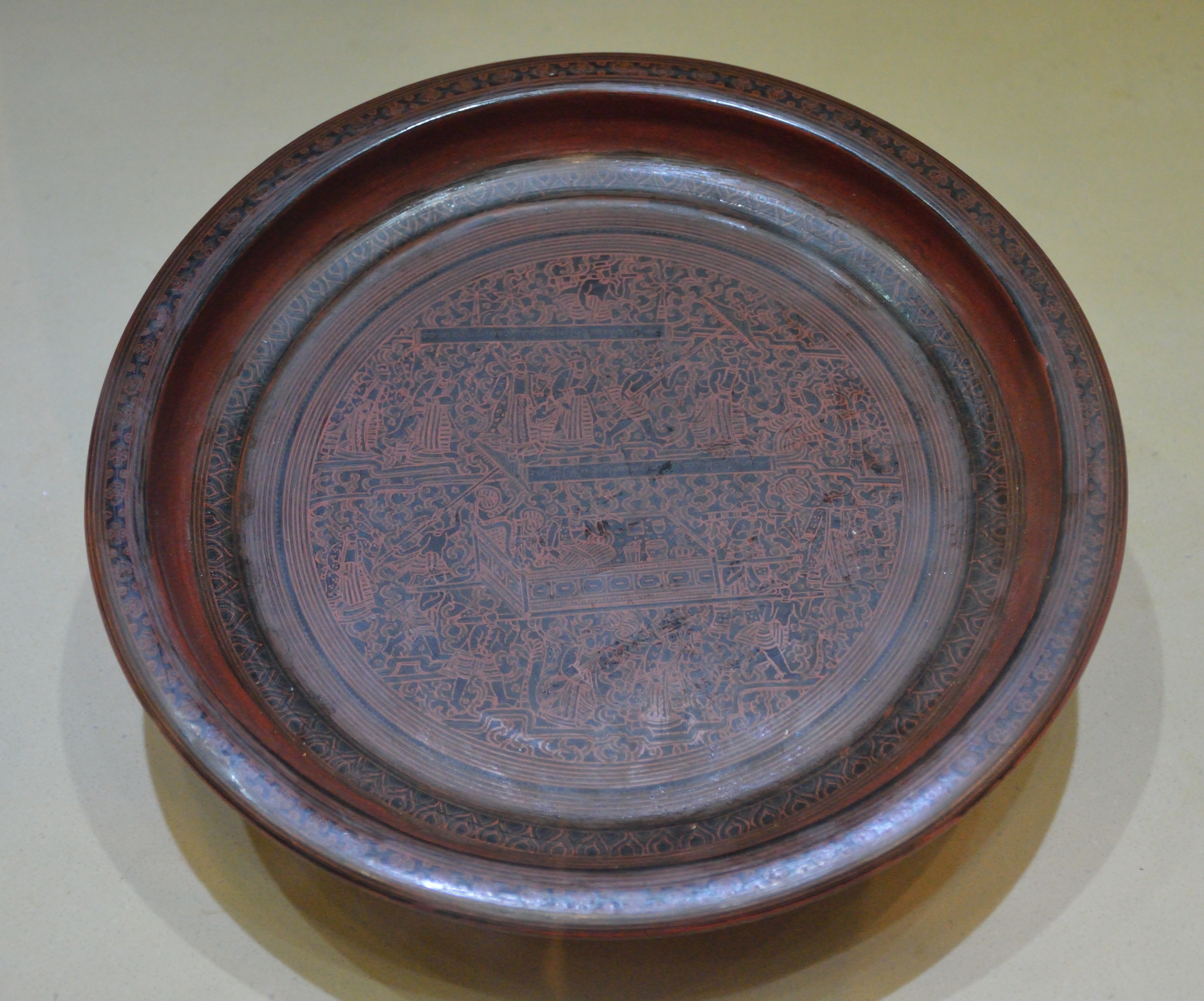 This photograph has been taken during the 'Indian Buddhist Art' exhibition that organised by the Indian Museum, Kolkata with 91 rare Buddhist artifacts comprising sculptures and manuscripts at its two different halls to celebrate 202nd anniversary of the museum. This exhibition was previously shown to China, Japan, Singapore and New Delhi also between September 2014 and December 2015.